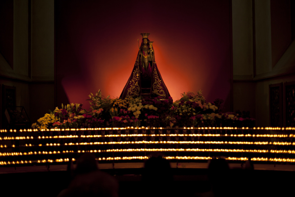 Sint-Janskathedraal (Kathedrale Basiliek van Sint-Jan Evangelist); 's-Hertogenbosch; provincie Noord-Brabant, Netherlands; ref: PM_060165_NL_sHertogenbosch; miraculeus Mariabeeld Zoete Moeder (13e); OLVrouwekapel; Photographer: Paul M.R. Maeyaert; © Paul M.R. Maeyaert; ; Cultural heritage; Cultural heritage/Cathedral; Europe/Netherlands/'s-Hertogenbosch; LoCloud selectie